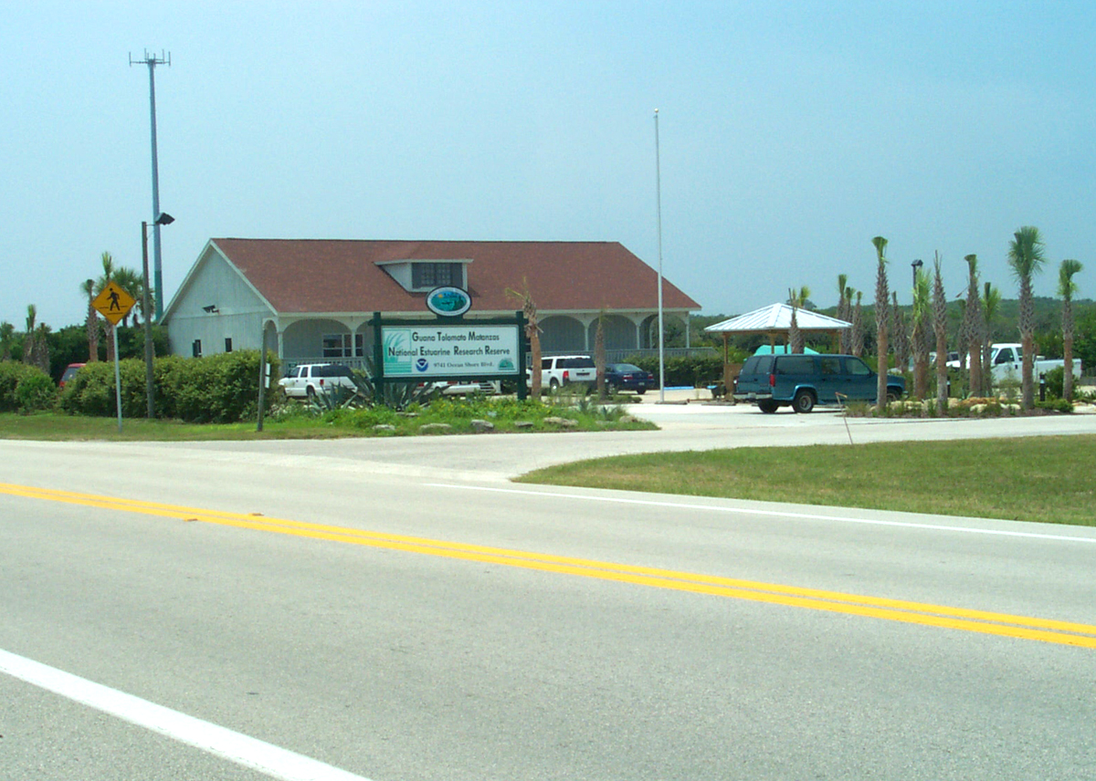 Headquarters of the Guana Tolomato Matanzas National Estuarine Research Reserve, St. Augustine, Florida